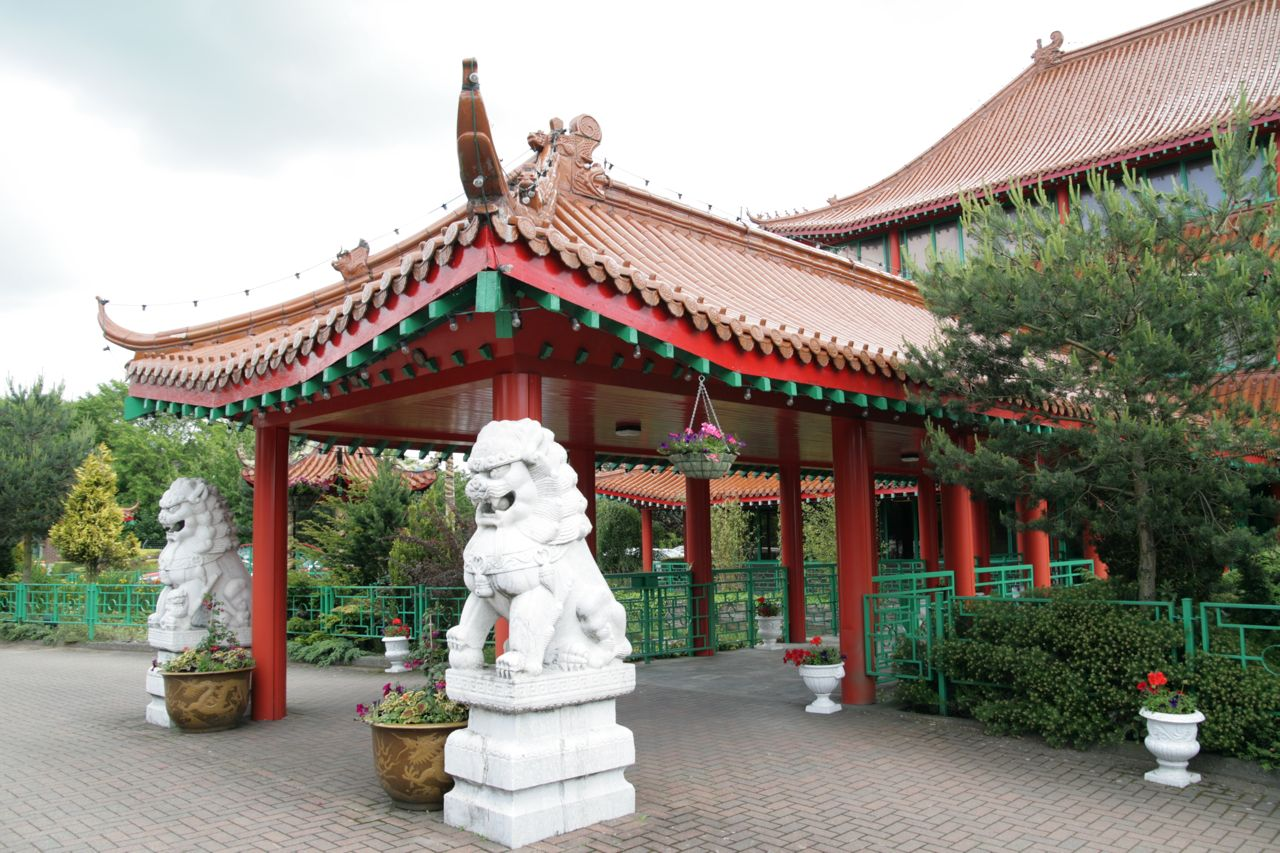 The pair of white stone lions by the entrance of the Enta Group HQ in Telford, Shropshire, UK